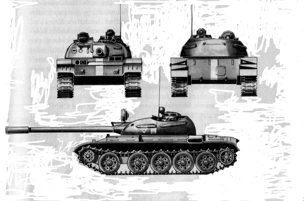 T-55 drawing from a photograph